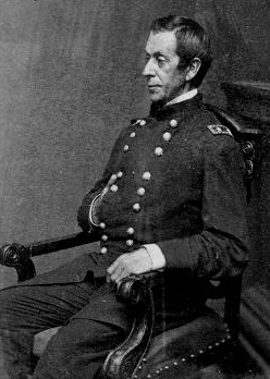 George A. McCall (1802–1868), Union General and a naturalist.